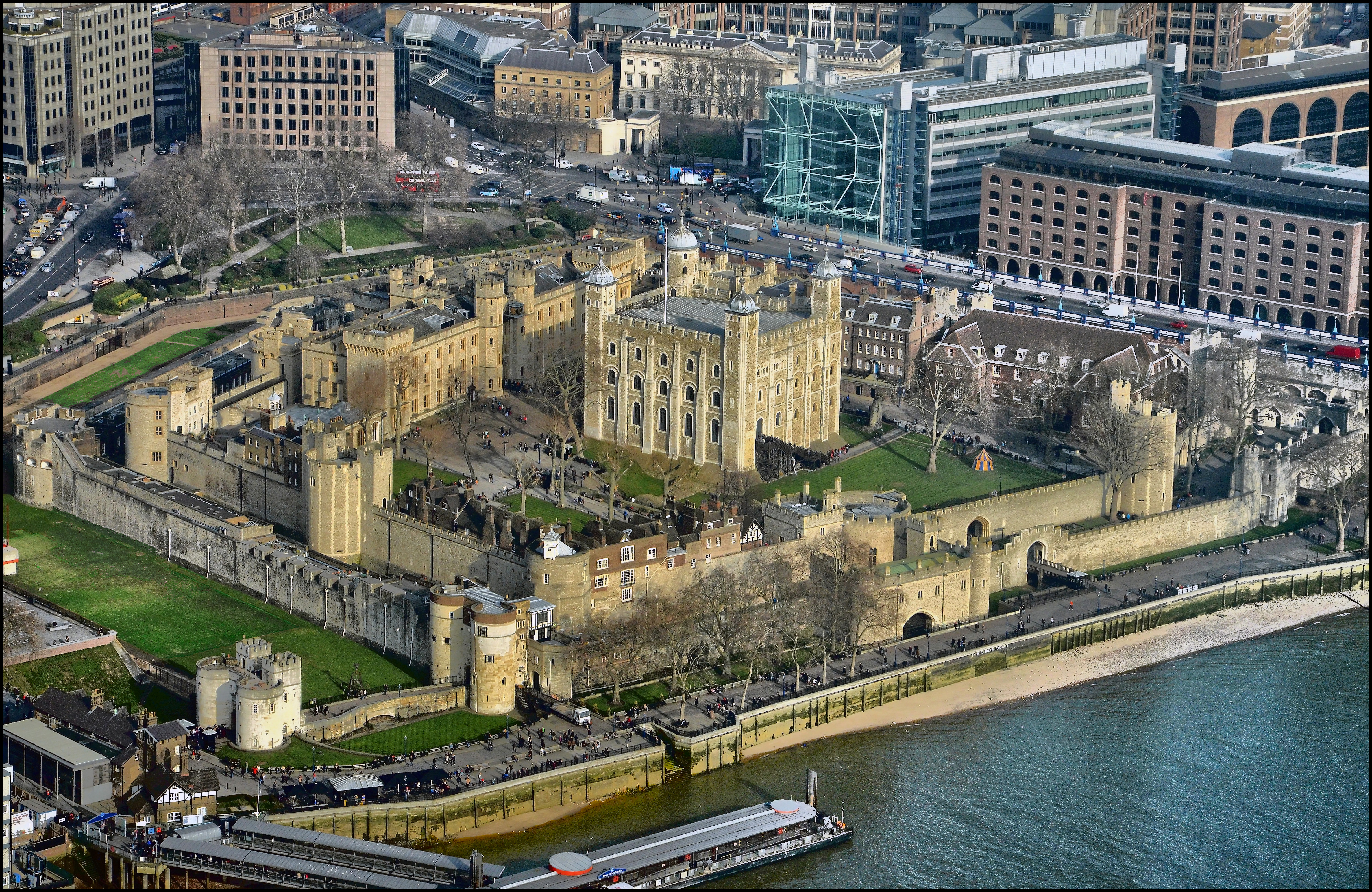 Tower of London, Another London landmark seen from the city's tallest building.